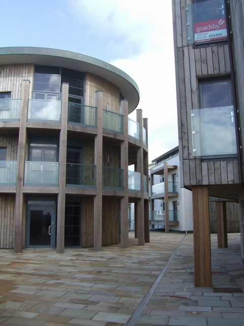 Modern architecture at West Bay. Featuring the current fashion for timber cladding.712592